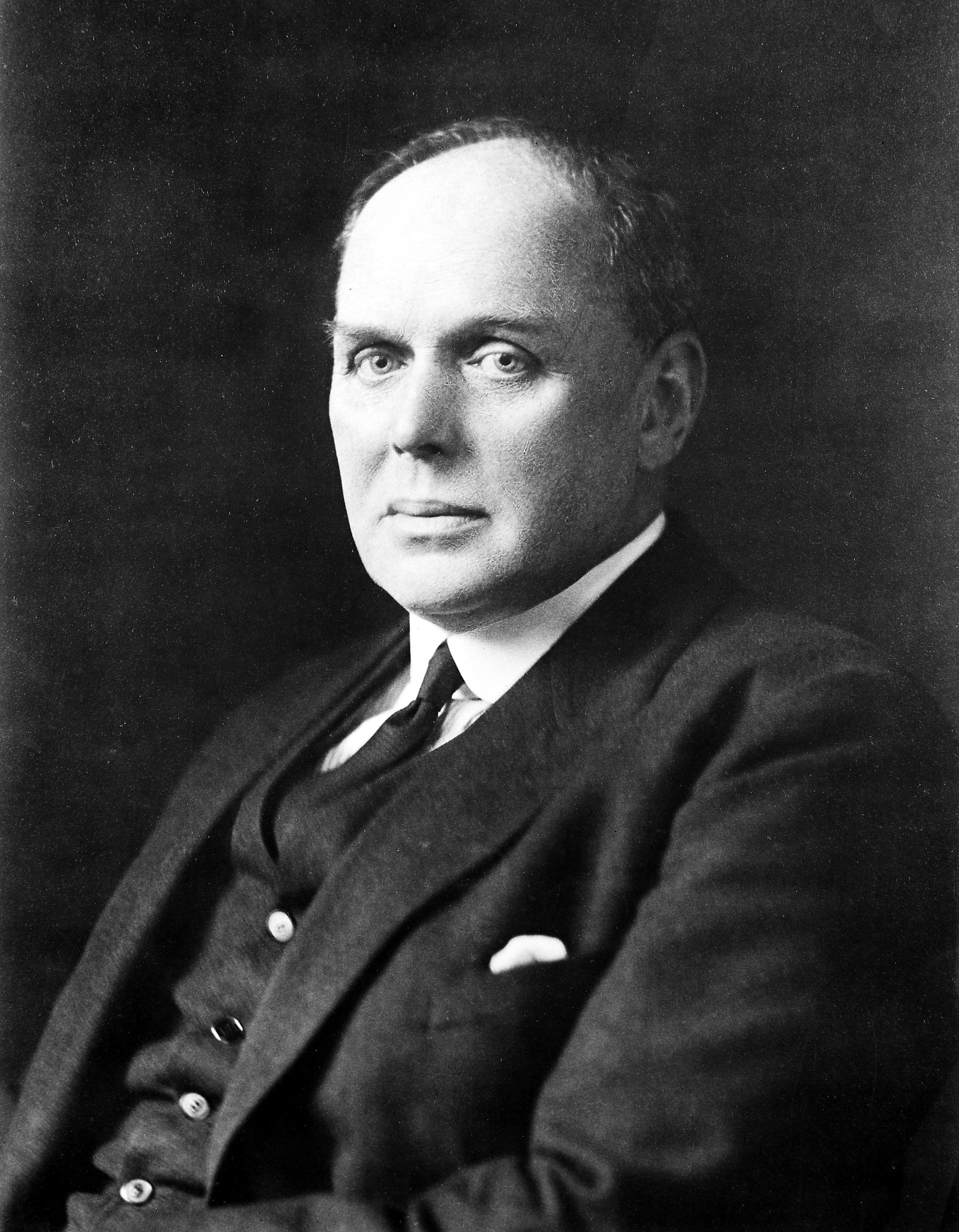 Sir Andrew Balfour (1873-1931), Medical scientist, author and rugby union international